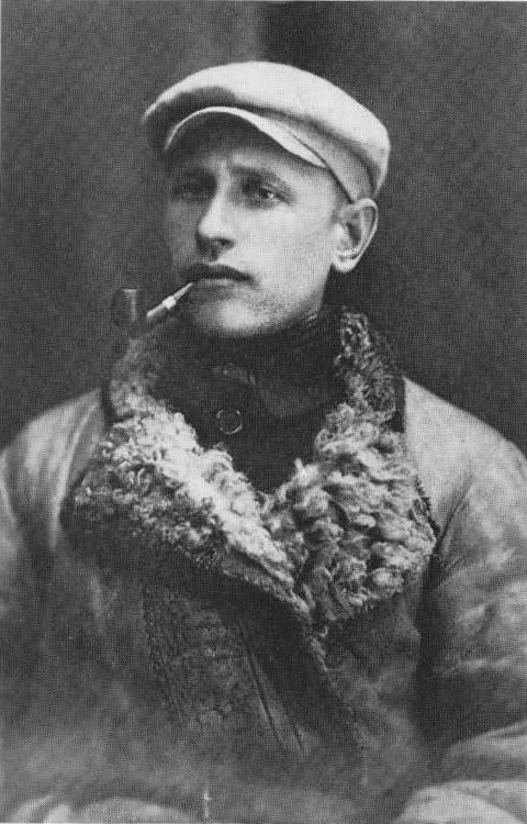 Kārlis Johansons, circa 1922. Also known as Kārlis Johansons (Latvian), birth Карл Вольдемарович Иогансон or Karl Voldemarovich Ioganson (Russian), partial residence Karlis Johansons or Karl Johannson (English) Karl Ioganson (German) Karel Ioganson (Greek) sometimes translated by hand or bot as Iogansons, Johanson, Johannson, Johanssons, Johannsons, Johanssons, Johnsons, or Carl From the Latvian Wikipedia article on Kārlis Johansons